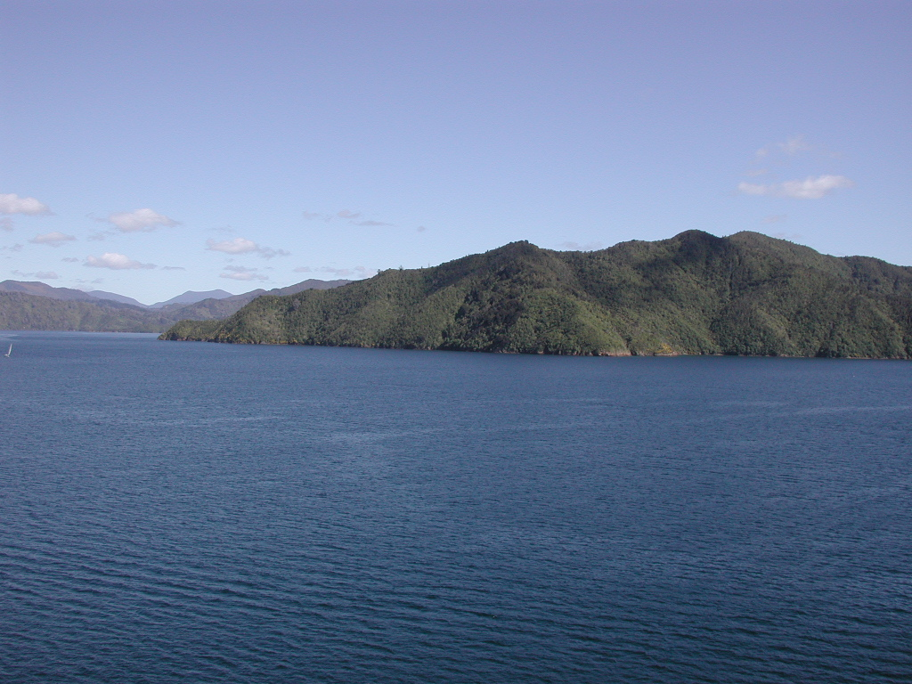 Southern end of Arapawa Island (now named Arapaoa Island) in the Marlborough Sounds, where Tory Channel connects with Queen Charlotte Sound